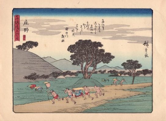 Fifty Three Stations of the Tōkaidō by Hiroshige (Kyokairi Tokaido) (東海道五拾三次（狂歌入東海道)); print 46 in the series (Shōno 庄野)